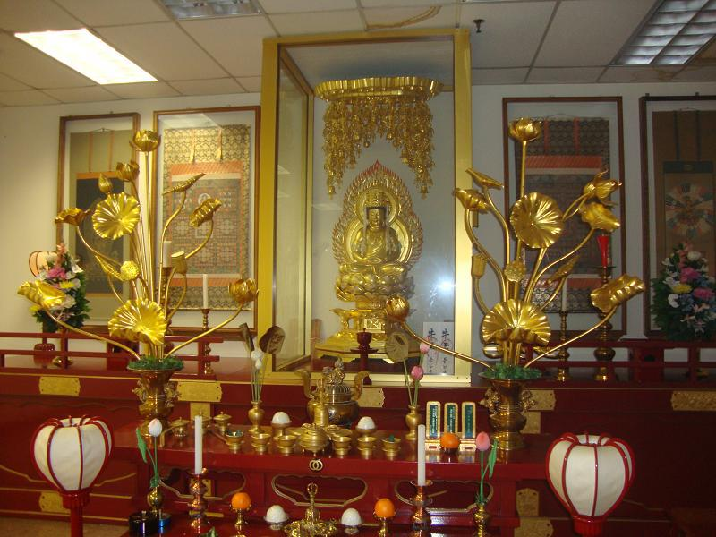 Shingon-shu Buzan-ha Mikkyo Altar Ming Ya Buddhist Foundation of Los Angeles